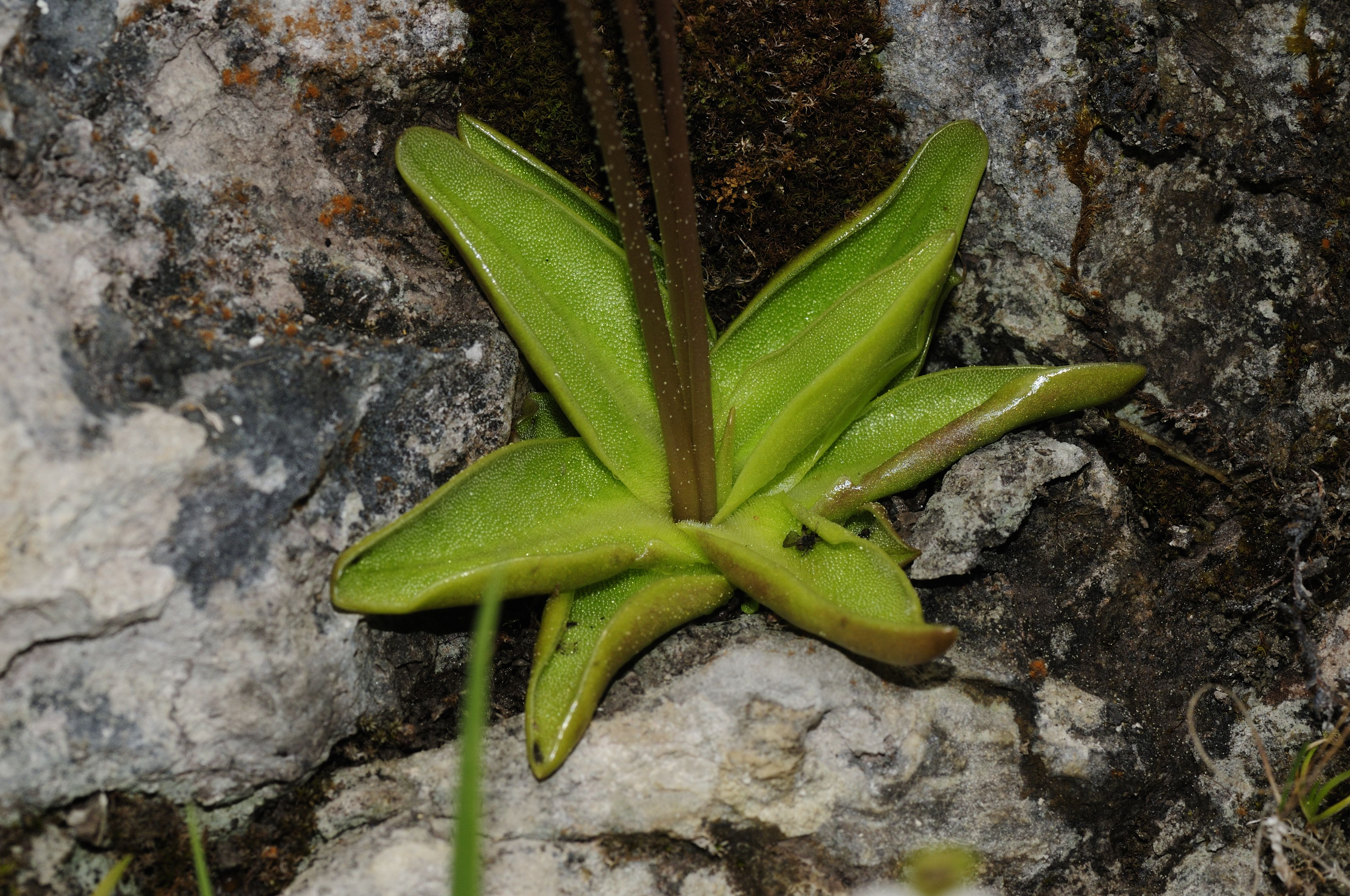 Please report references to .